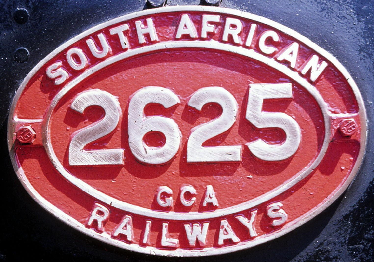 SAR Class GCA no. 2625 number plate